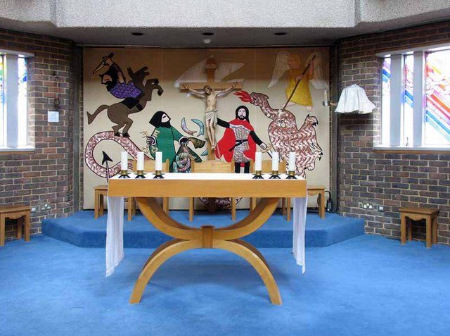 St Peter & St Paul, Church Road, Teddington, Mx TW11 8PS - Sanctuary